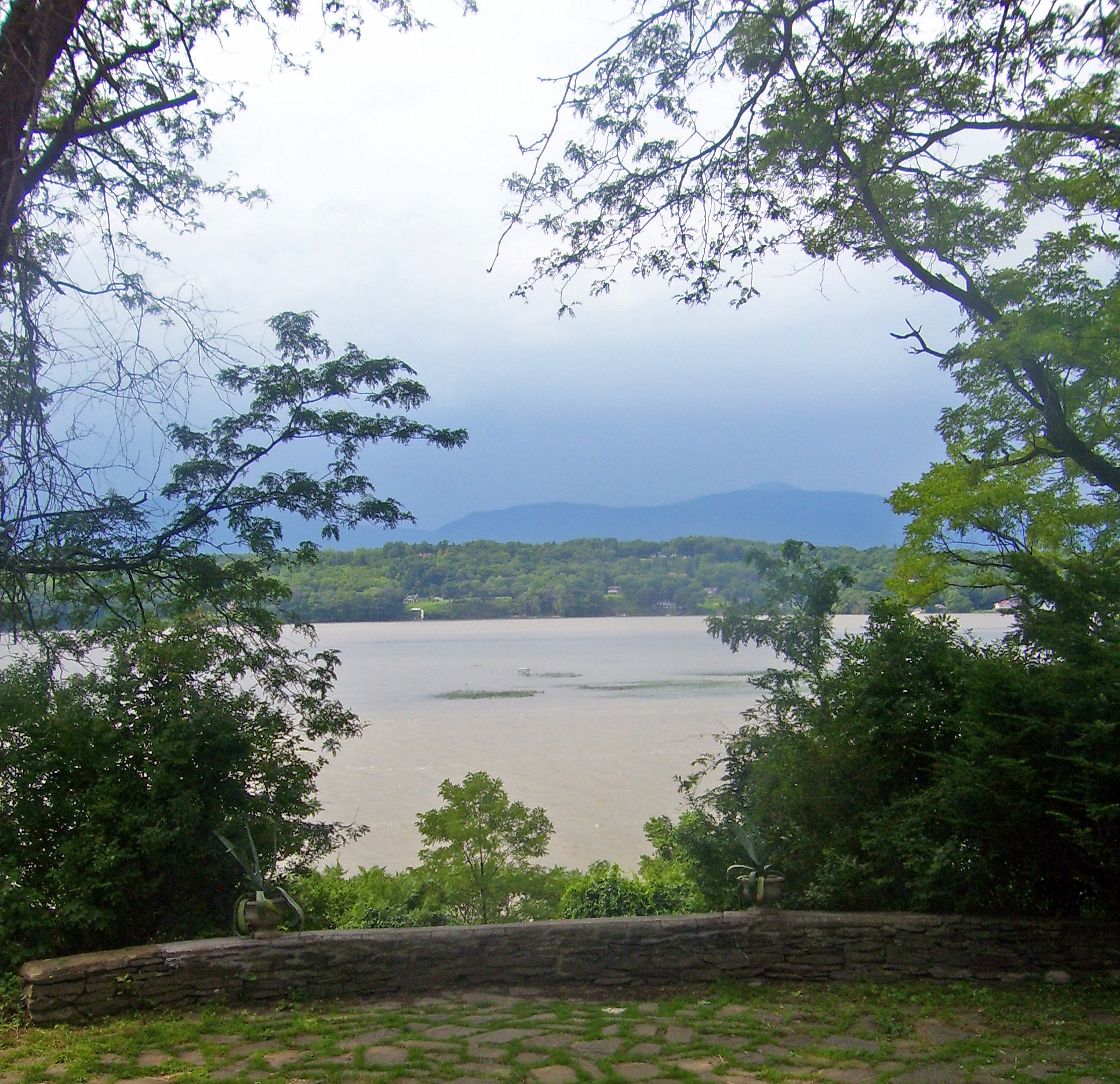 View west of Catskills and Hudson River from Clermont Manor, Clermont, NY, USA